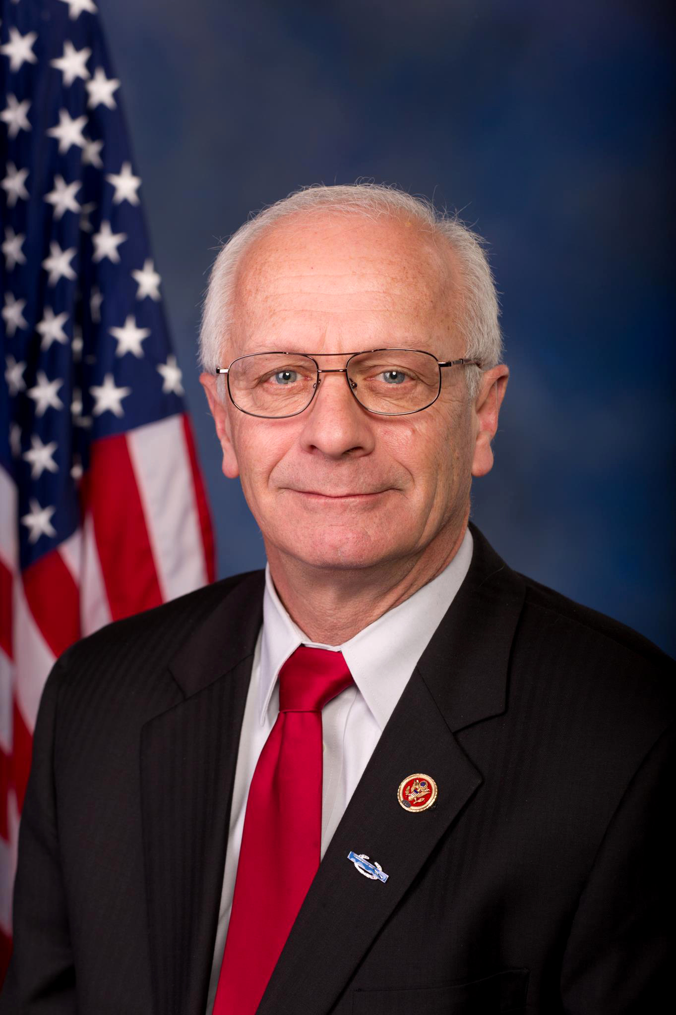 Official portrait of Congressman Kerry Bentivolio (R-MI).